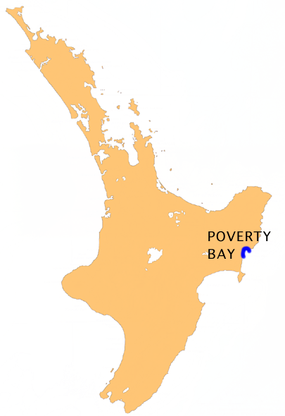 Poverty Bay, North Island, New Zealand